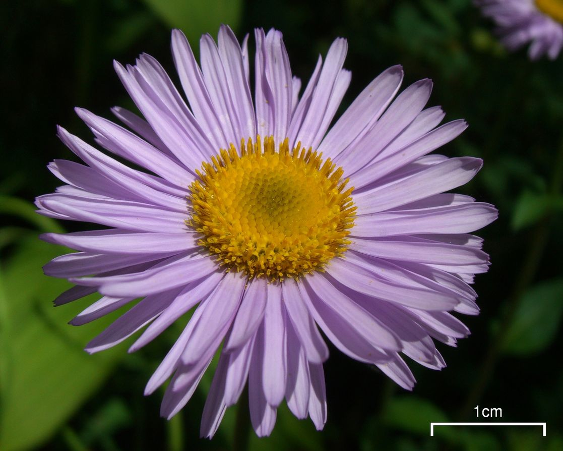 Erigeron peregrinus (Pursh) E. Greene 20090720.9 Table Mountain, Wells Gray Park, BC